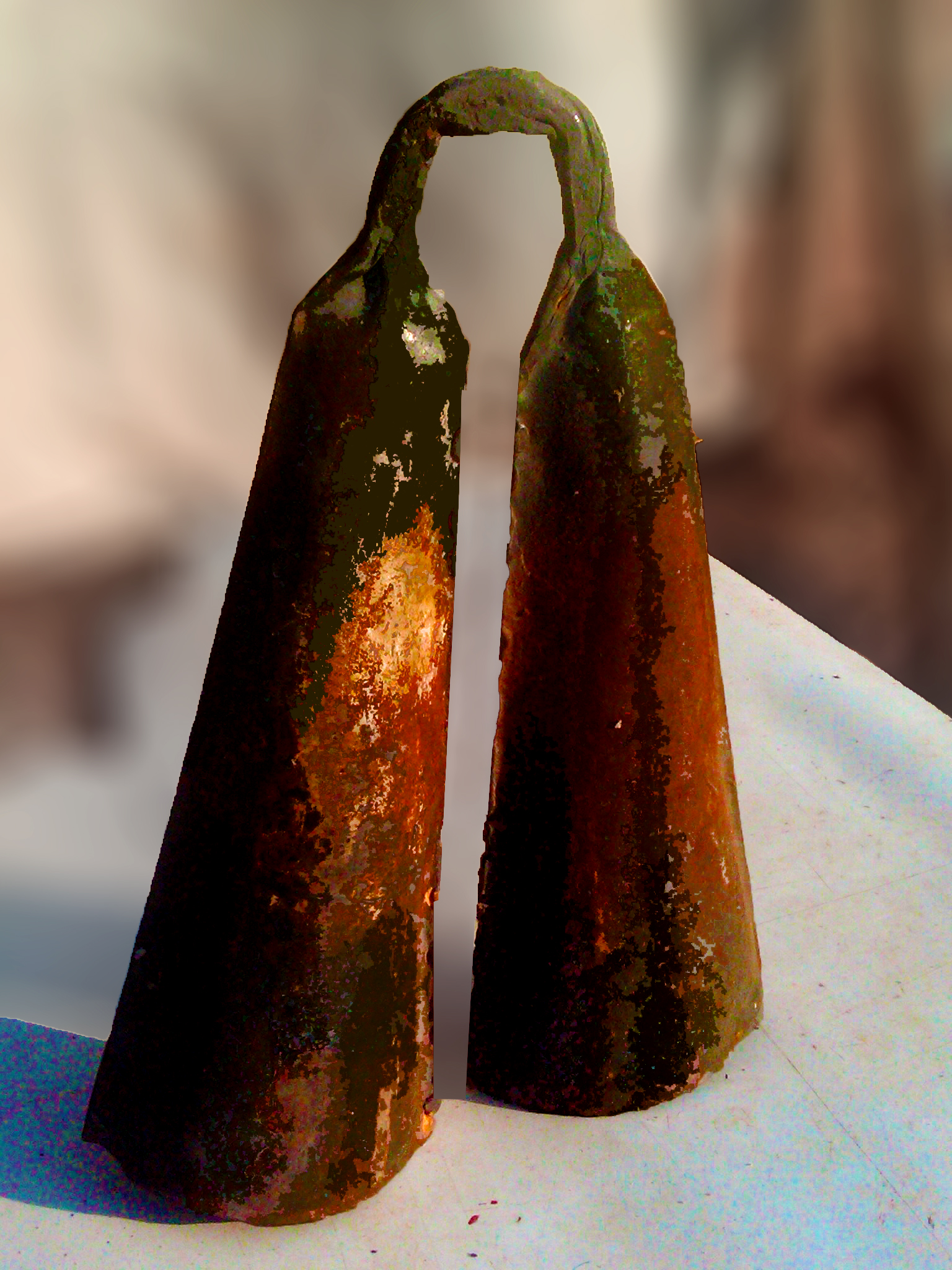 A musical instrument made and used mostly by the Igbos in Nigeria. Igbo: Ogene bụ ngwá ndi Igbo mere ana eji aku egwu na ala Igbo.